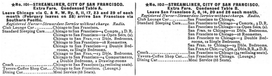 Consists of the Chicago-Oakland/San Francisco C&NW-UP-SP Streamliner City of San Francisco TR 101-102 (February, 1941)